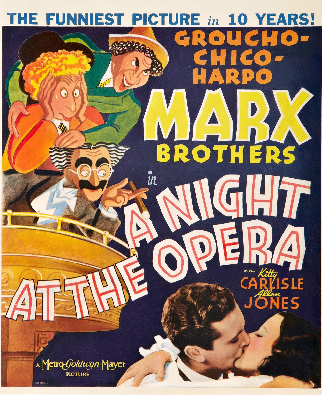 Window poster for the 1935 film A Night at the Opera.